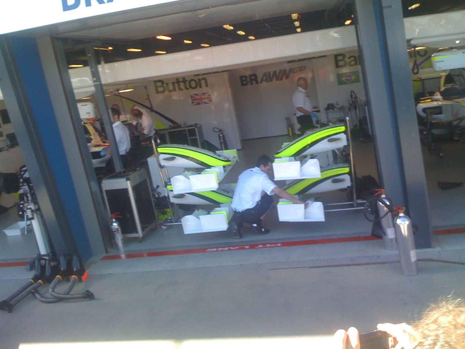 The Brawn GP garage